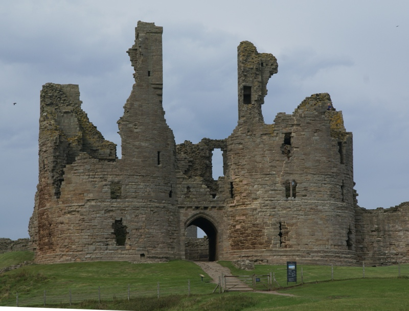 Dunstanburgh Castle, Northumberland, England. Gatehouse of Thomas of Lancaster.